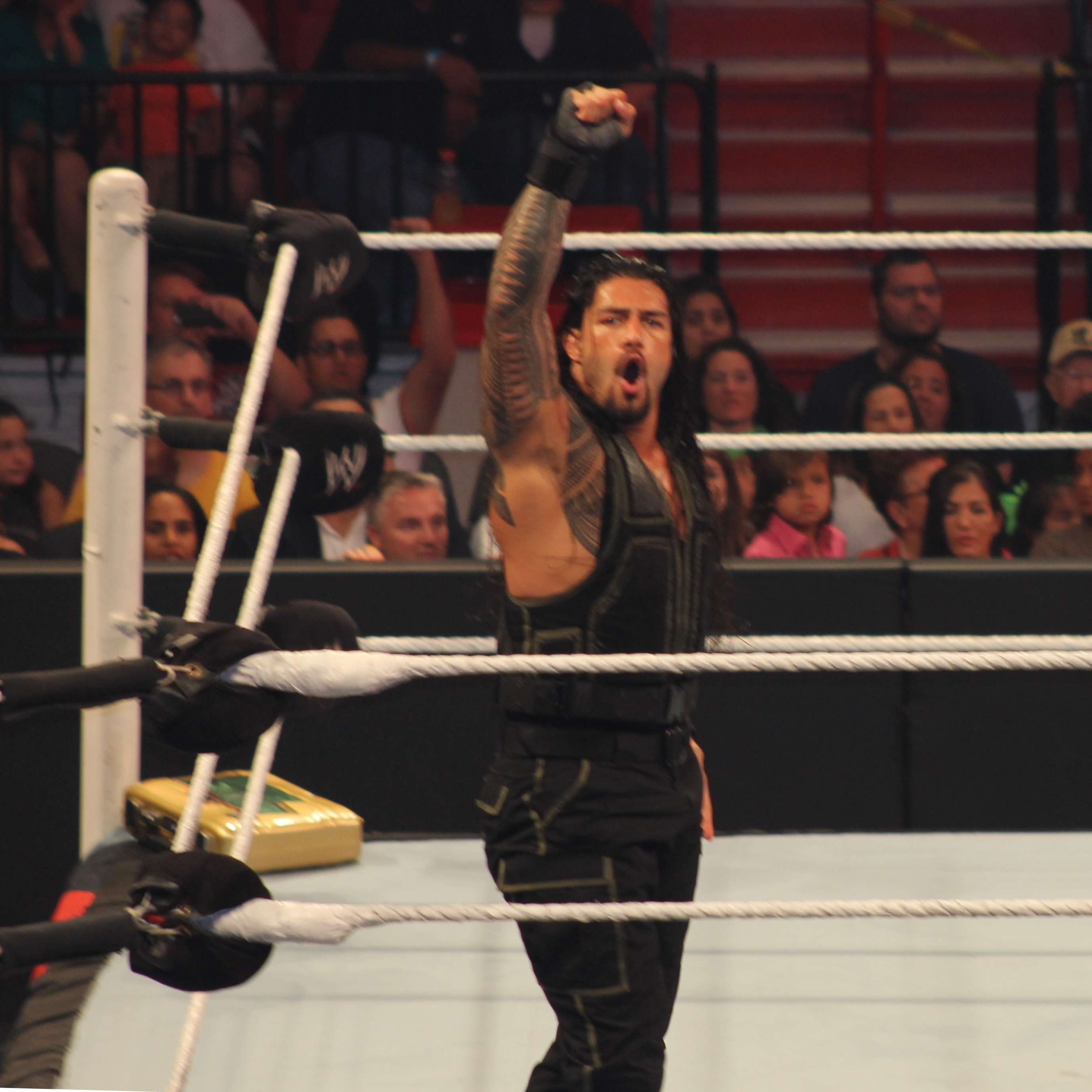 Roman Reigns calls for the Superman Punch.